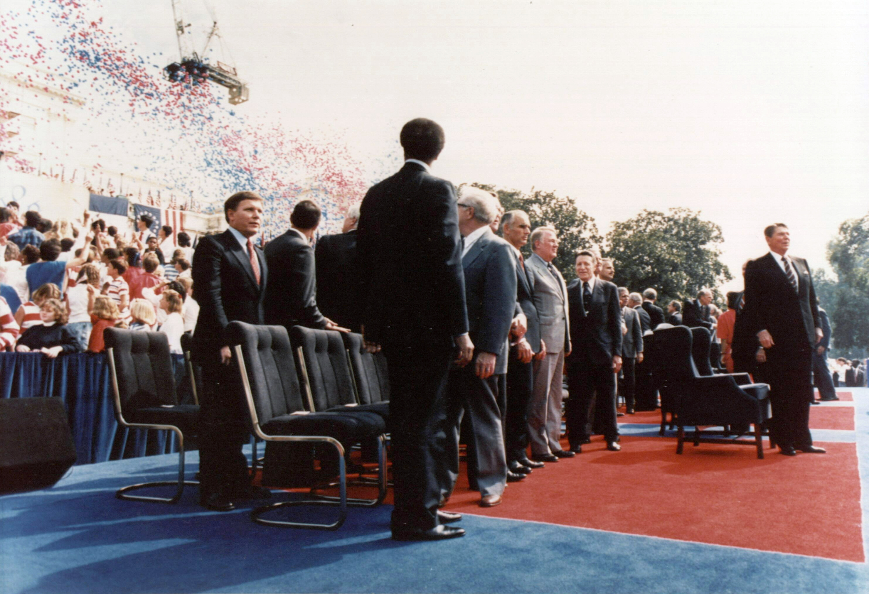 William Martin